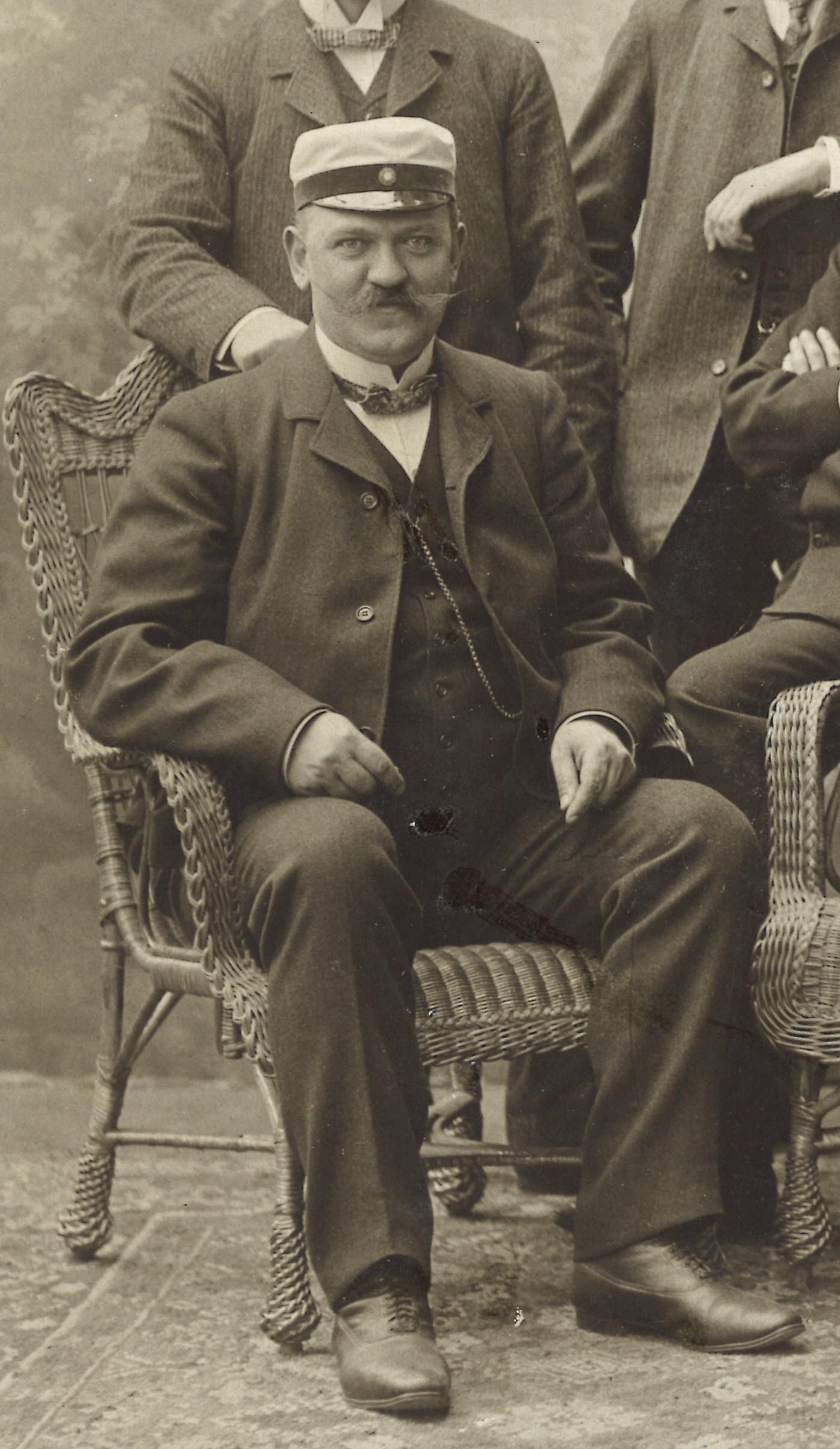 Waldemar Bülow (1864-1934), Swedish journalist, local politician, humorist and environmental preservationist.